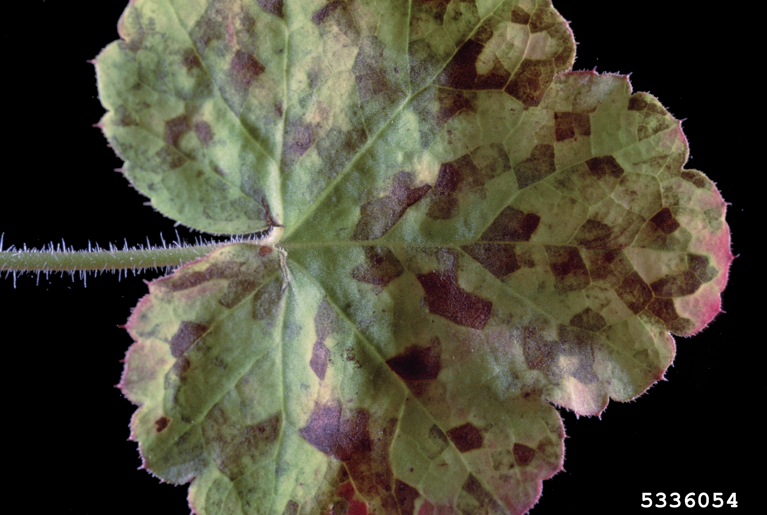 Foliar nematode symptoms on coralbells